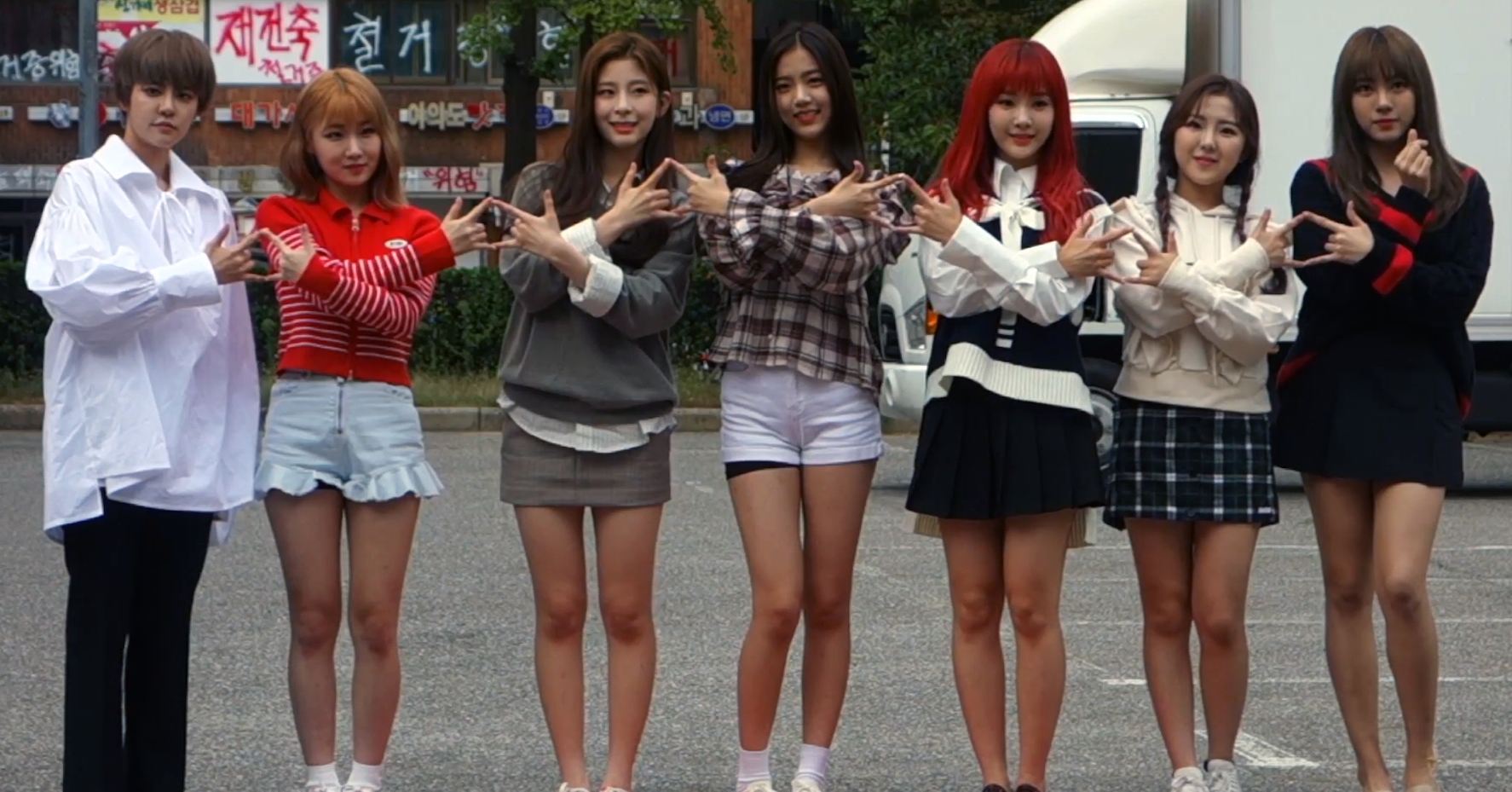 GWSN arriving at KBS musical bank on September 14, 2018